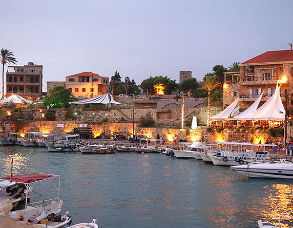 Byblos harbor by night